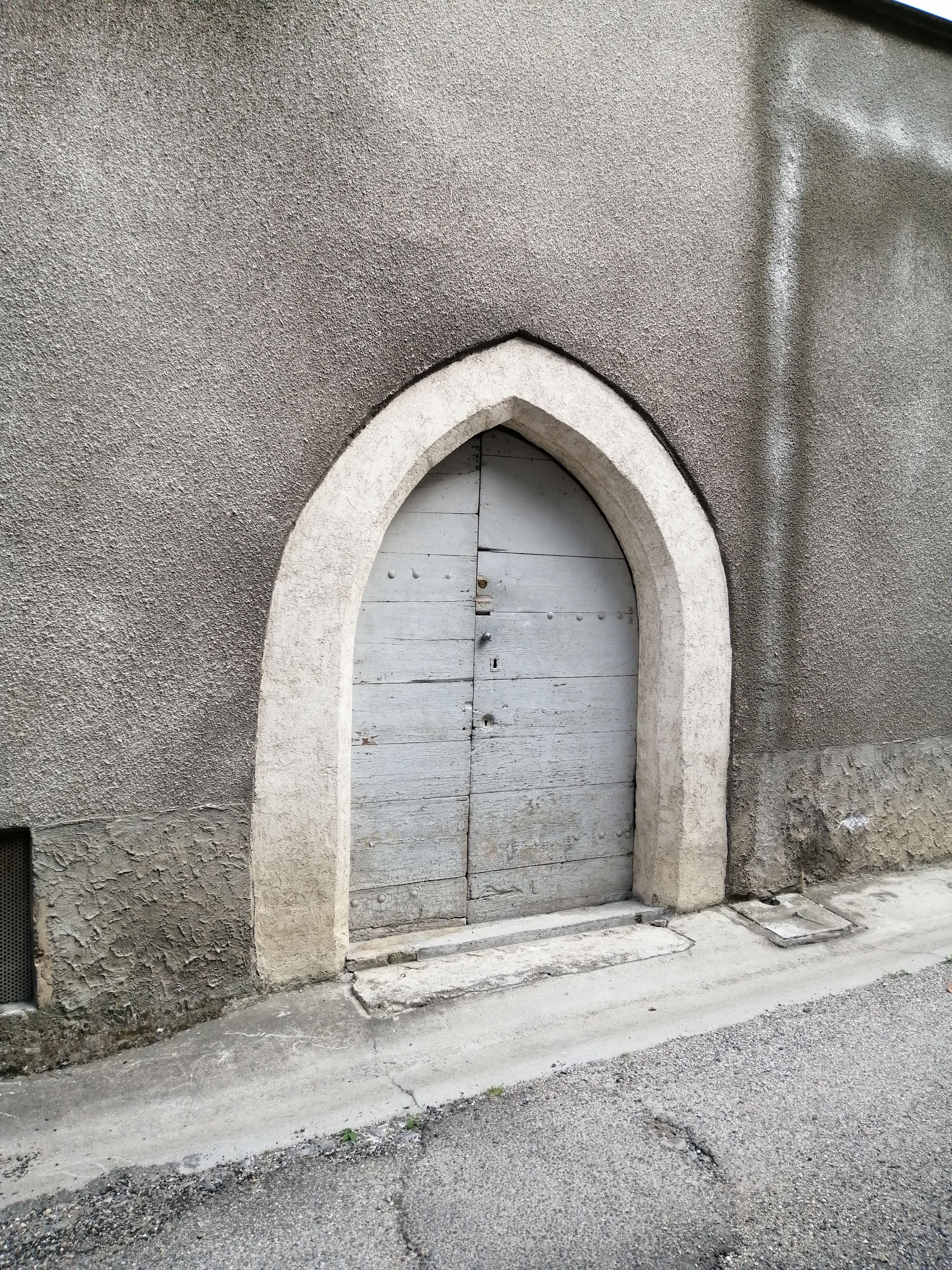 Medieval gate of one of old houses in the city center of Vif, in France.